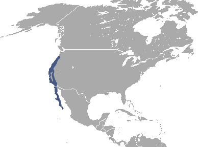 Brush Rabbit (Sylvilagus bachmani) range with colonial borders